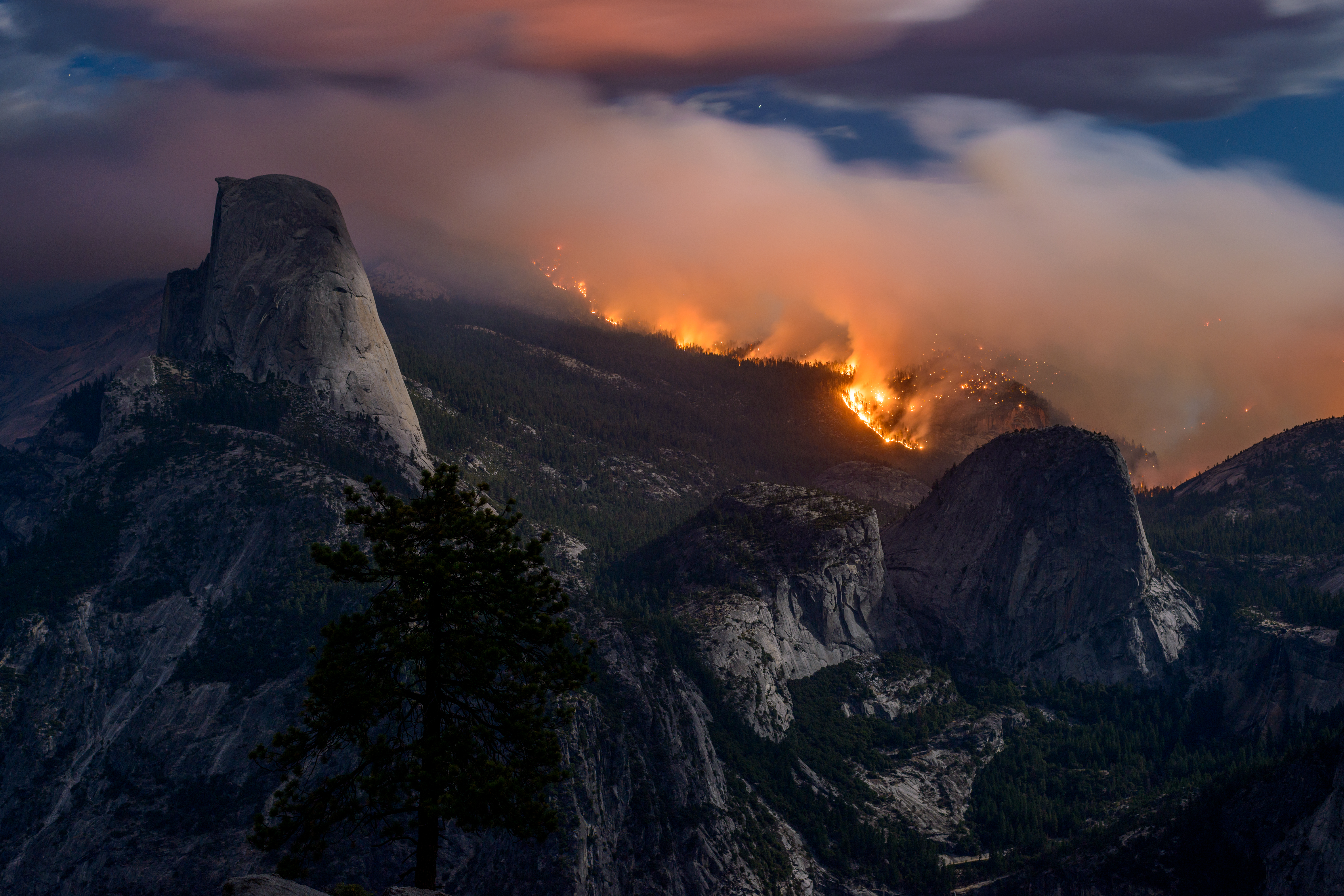 Meadow Fire erupted in the Little Yosemite Valley area of Yosemite National Park, Sept 7, 2014, growing to over 2,500 acres in one day. The peaks of Half Dome, Clouds Rest, Mount Broderick, and Liberty Cap ring the northern and western edges of the region, which includes the Merced River.